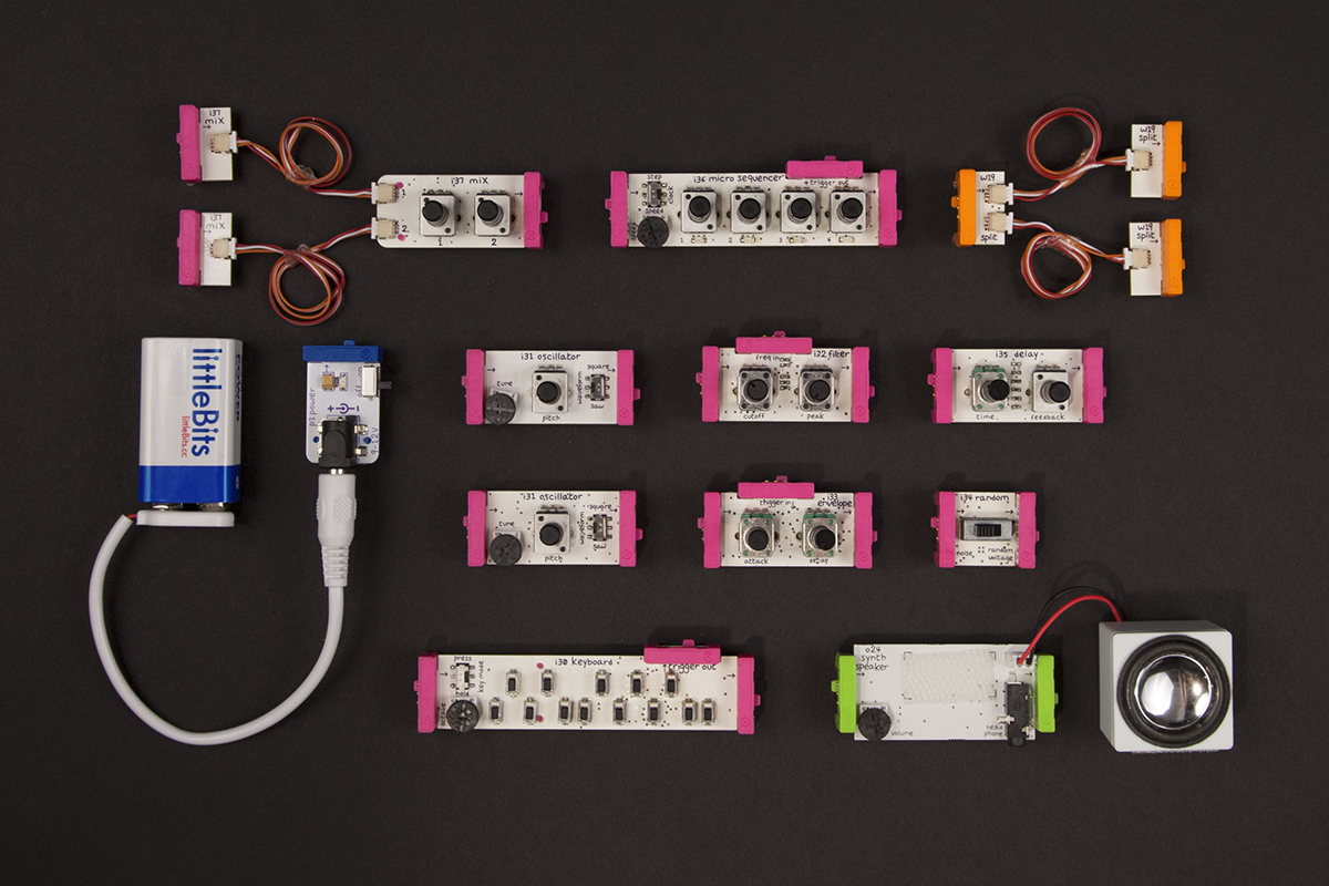 Illustration of littleBits Synth Kit components